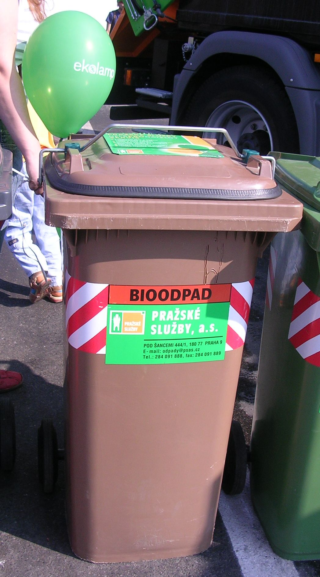 Řepy, Prague, the Czech Republic. Open Doors Day in Řepy bus depot. Exposed sorted waste container of Prague Services. Bioorganic waste.